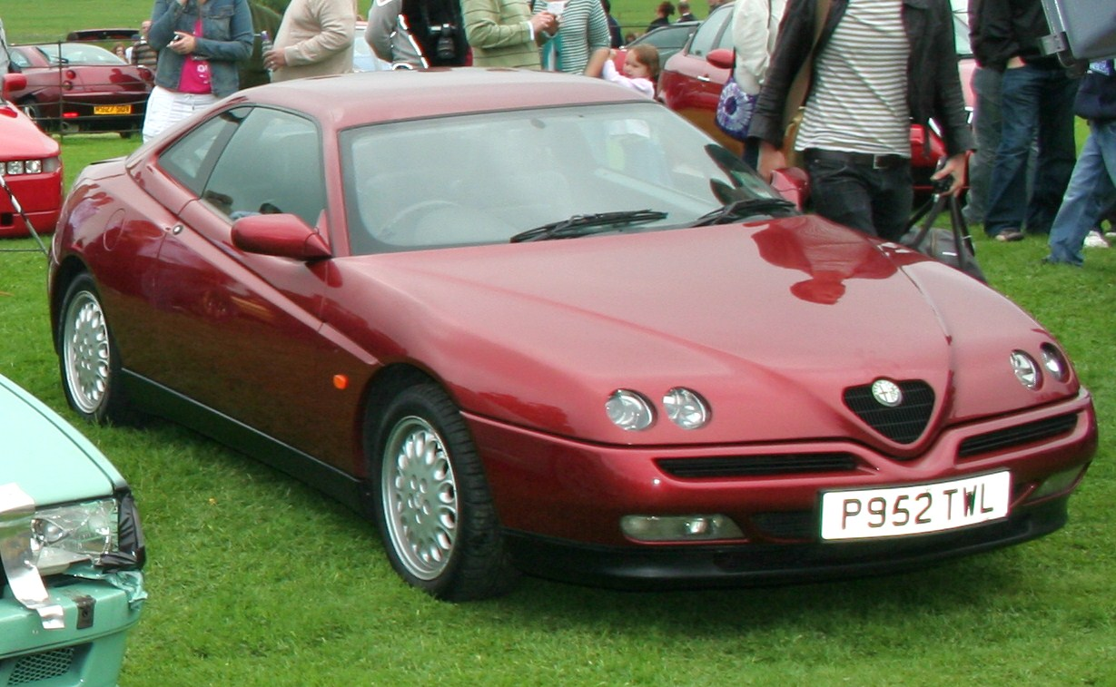 Alfa Romeo GTV